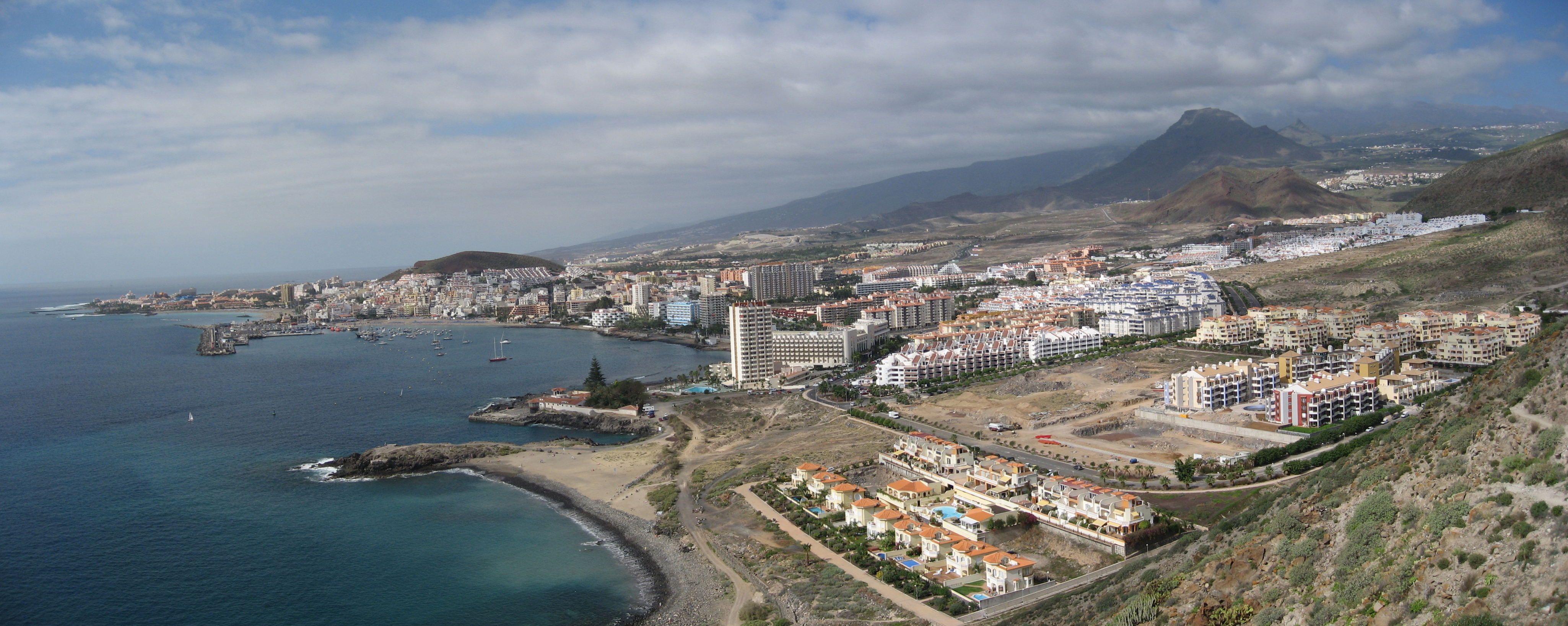 Los Cristianos, Tenerife, Canarias